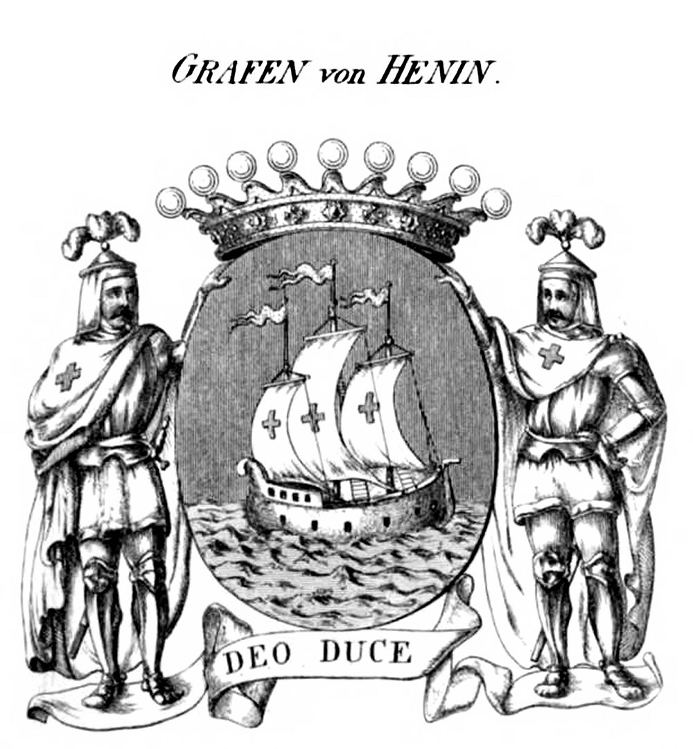 Wappen Henin - Tyroff HA.jpg